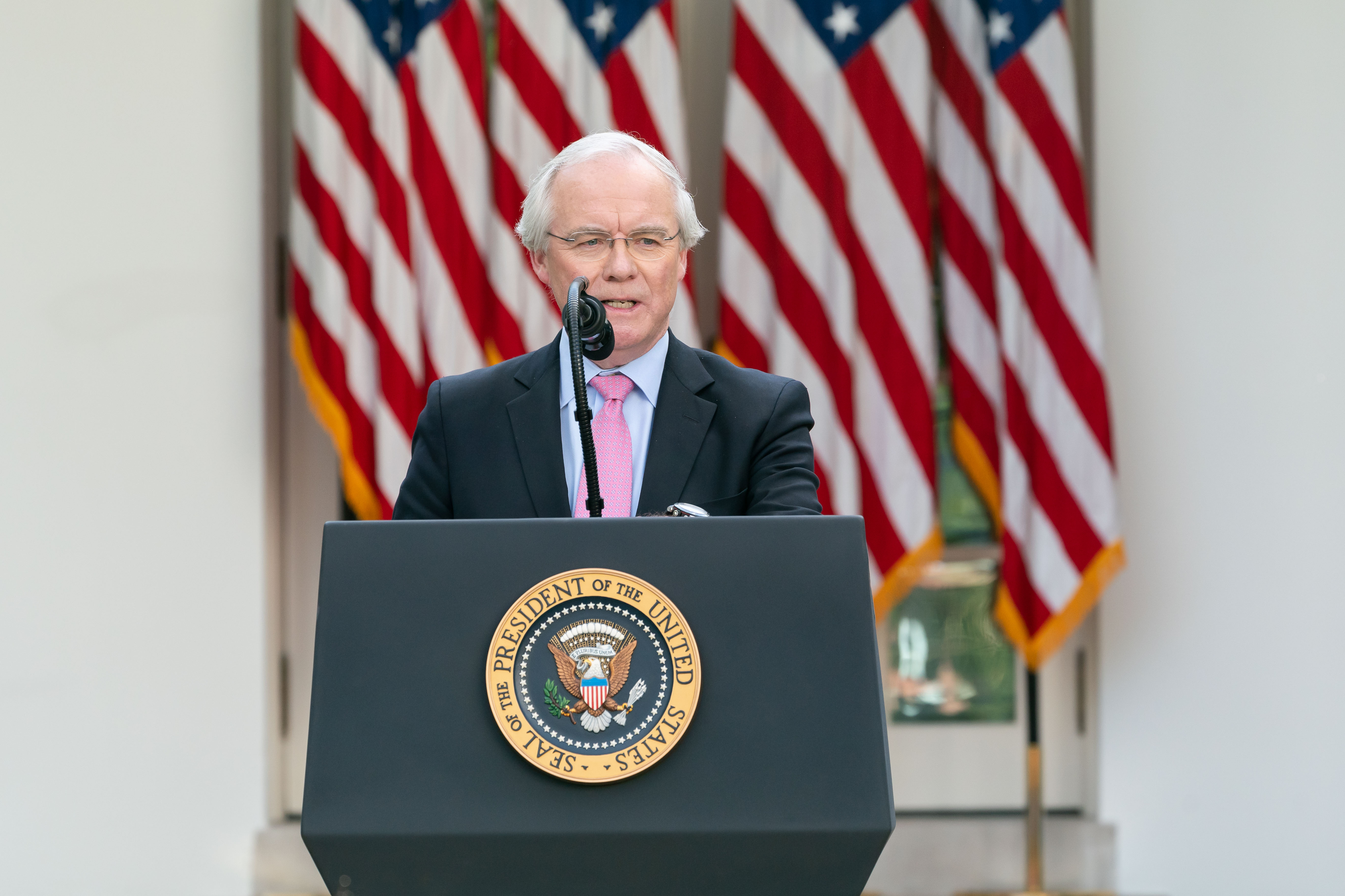 Rodney McMullen, chief executive Officer of Kroger, addresses his remarks at the coronavirus (COVID-19) update briefing Monday, April 27, 2020, in the Rose Garden of the White House (Official White House Photo by Andrea Hanks)